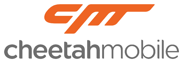 Cheetah Mobile Logo